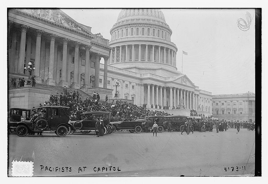 Bain News Service,, publisher. Pacifists at Capitol [between ca. 1915 and ca. 1920] 1 negative : glass ; 5 x 7 in. or smaller. Notes: Photograph shows anti-war protesters at the U.S. Capitol rallying against President Wilson's speech to Congress asking for a declaration of war (Source: Fort Wayne News, April 5, 1917). (from LOC description) Title from unverified data provided by the Bain News Service on the negatives or caption cards. Forms part of: George Grantham Bain Collection (Library of Congress). Format: Glass negatives. Repository: Library of Congress, Prints and Photographs Division, Washington, D.C. 20540 USA, General information about the Bain Collection is available at Higher resolution image is available (Persistent URL): Call Number: LC-B2- 4173-11